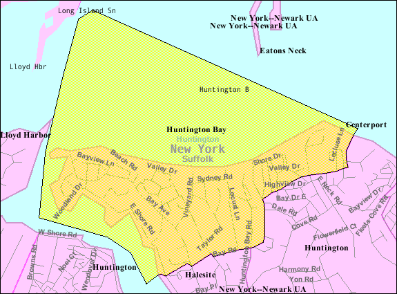 U.S. Census 2000 reference map for Huntington Bay